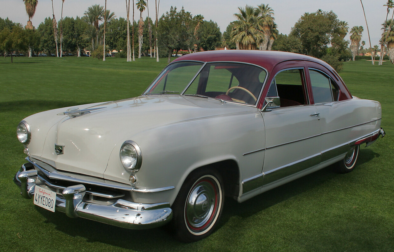 1951 Kaiser.